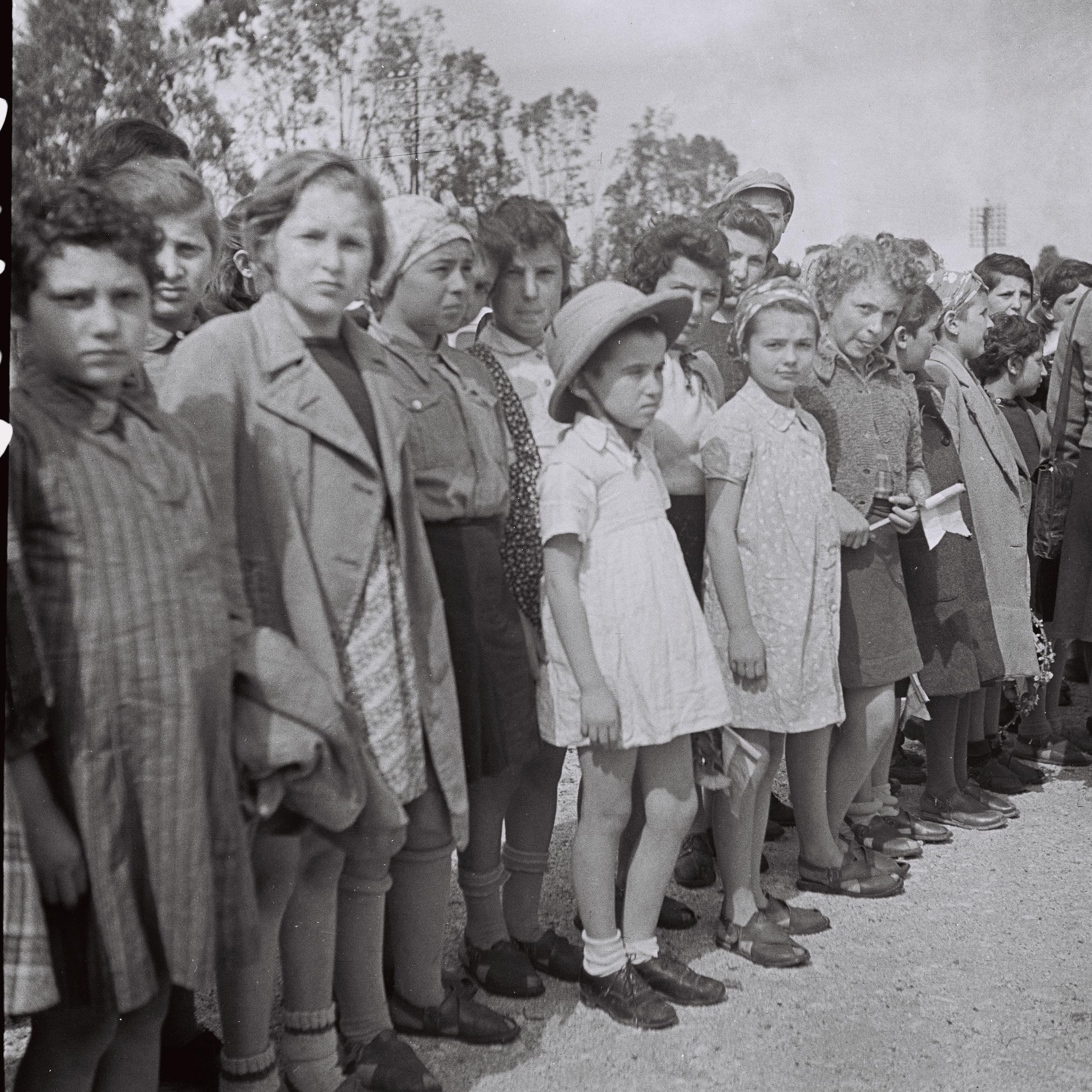 A GROUP WAITING OF "TEHERAN CHILDREN" WAITING TO BOARD THE TRAIN AT THE ATLIT RAILWAY STATION. קבוצה של "ילדי טהרן" ממתינה לרכבת בעתלית.